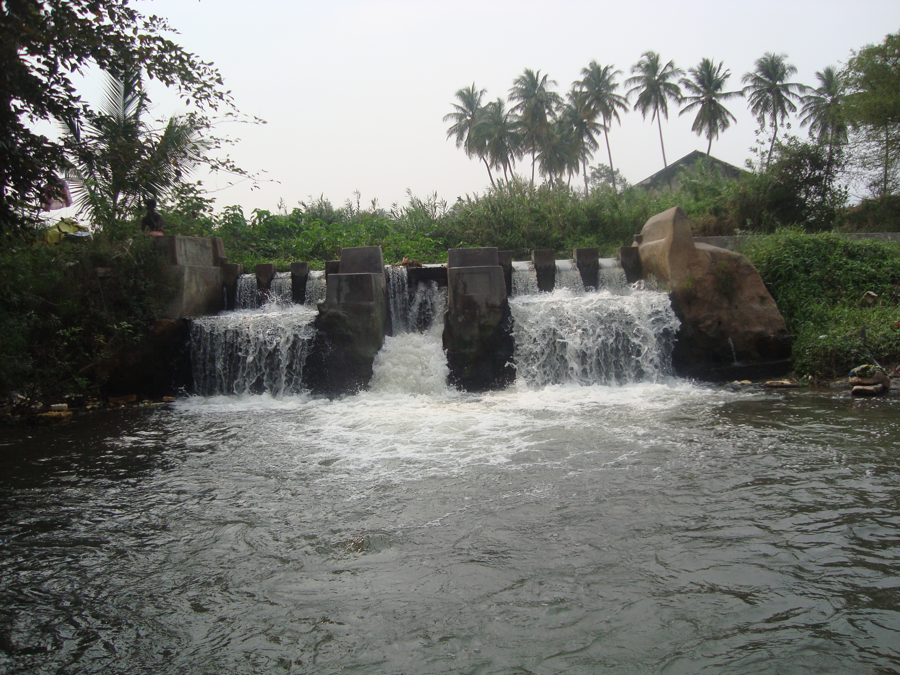 Palanichettipatti Murugi Part